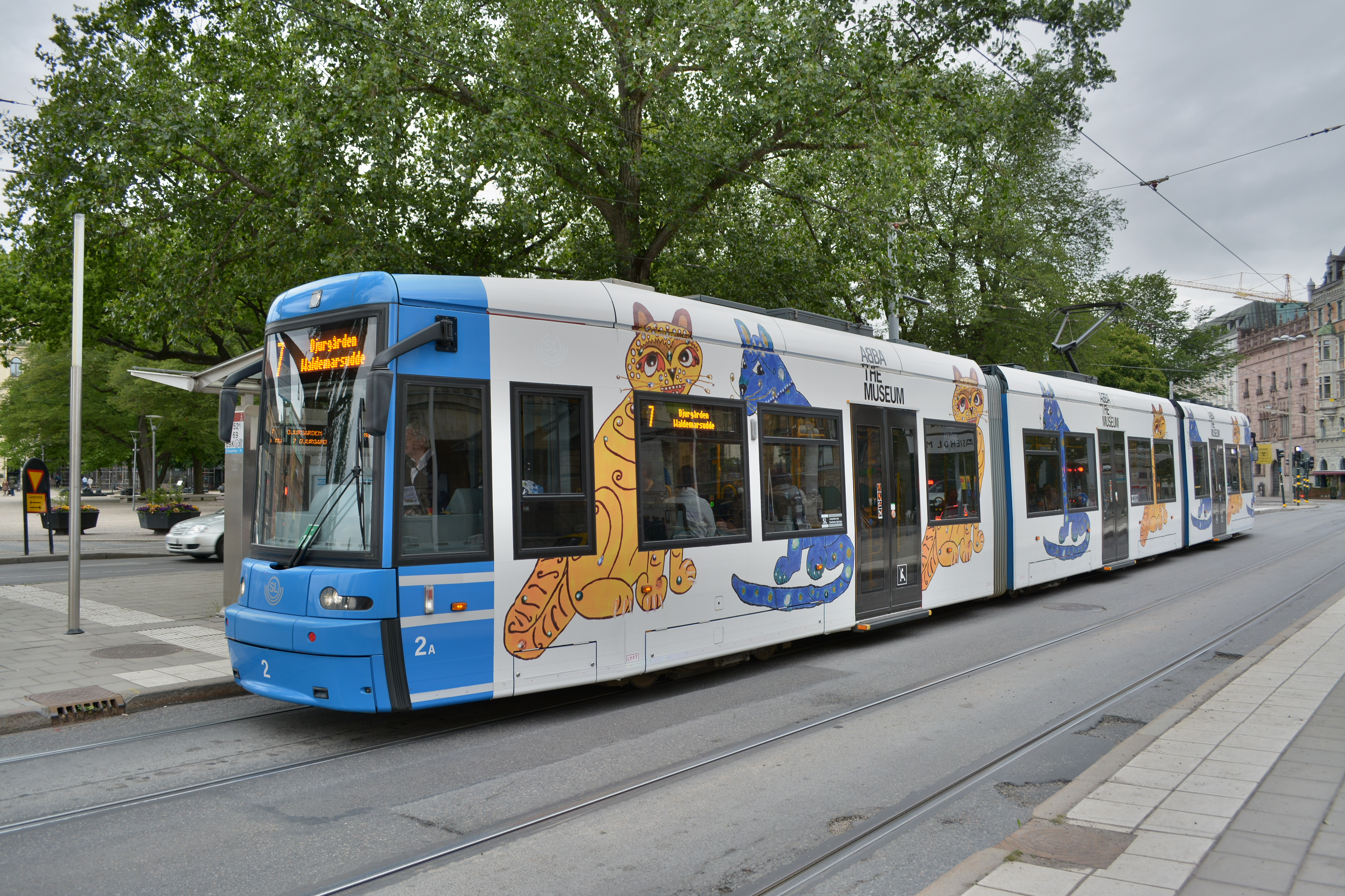 at Station Nybroplan